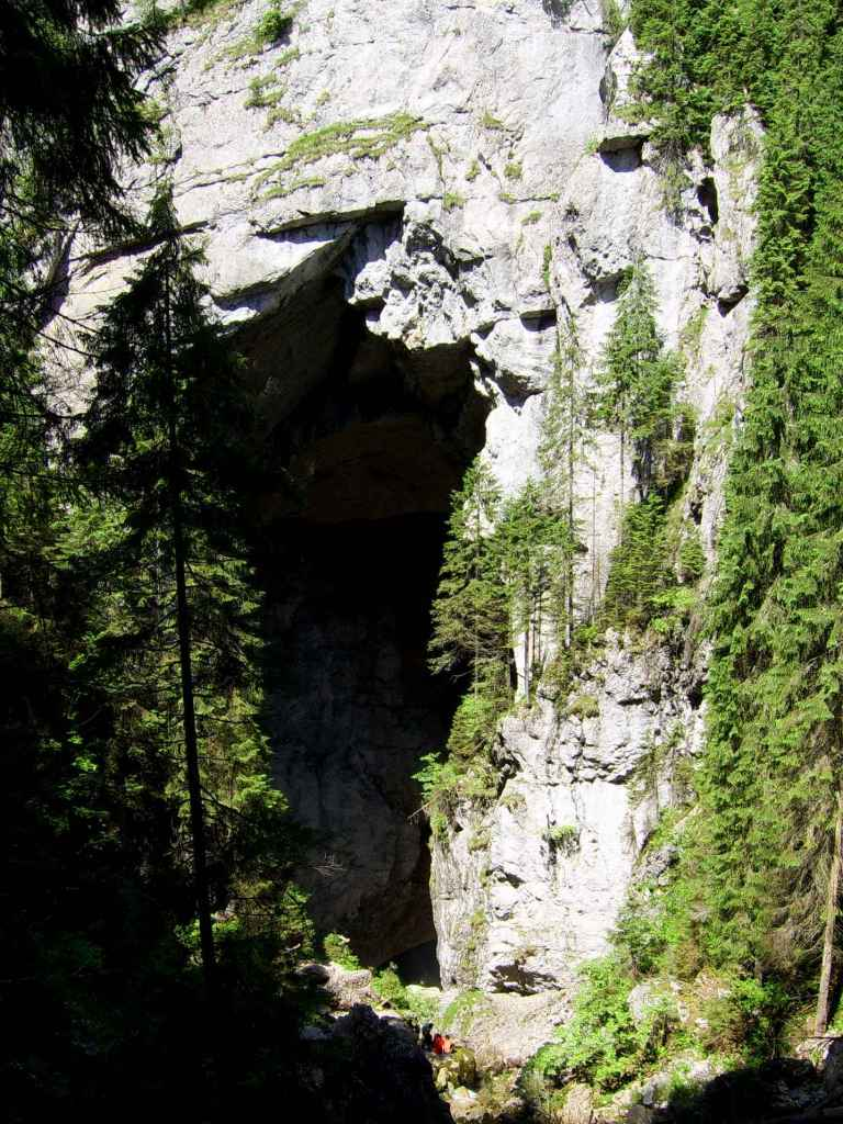 The Fortress of Ponor - famous cave portal, Padis Plateau, Romania.